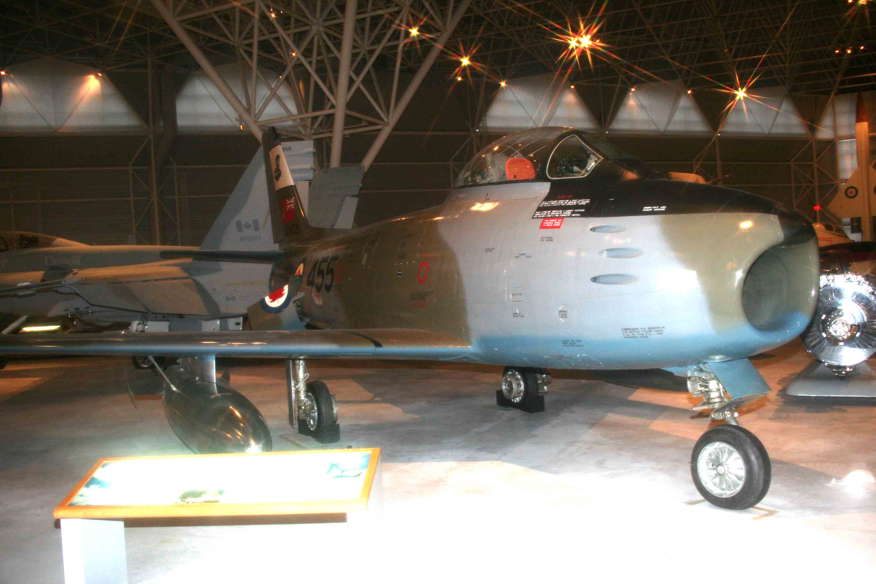 Canadair Sabre Mk 6 at the Canada Aviation Museum